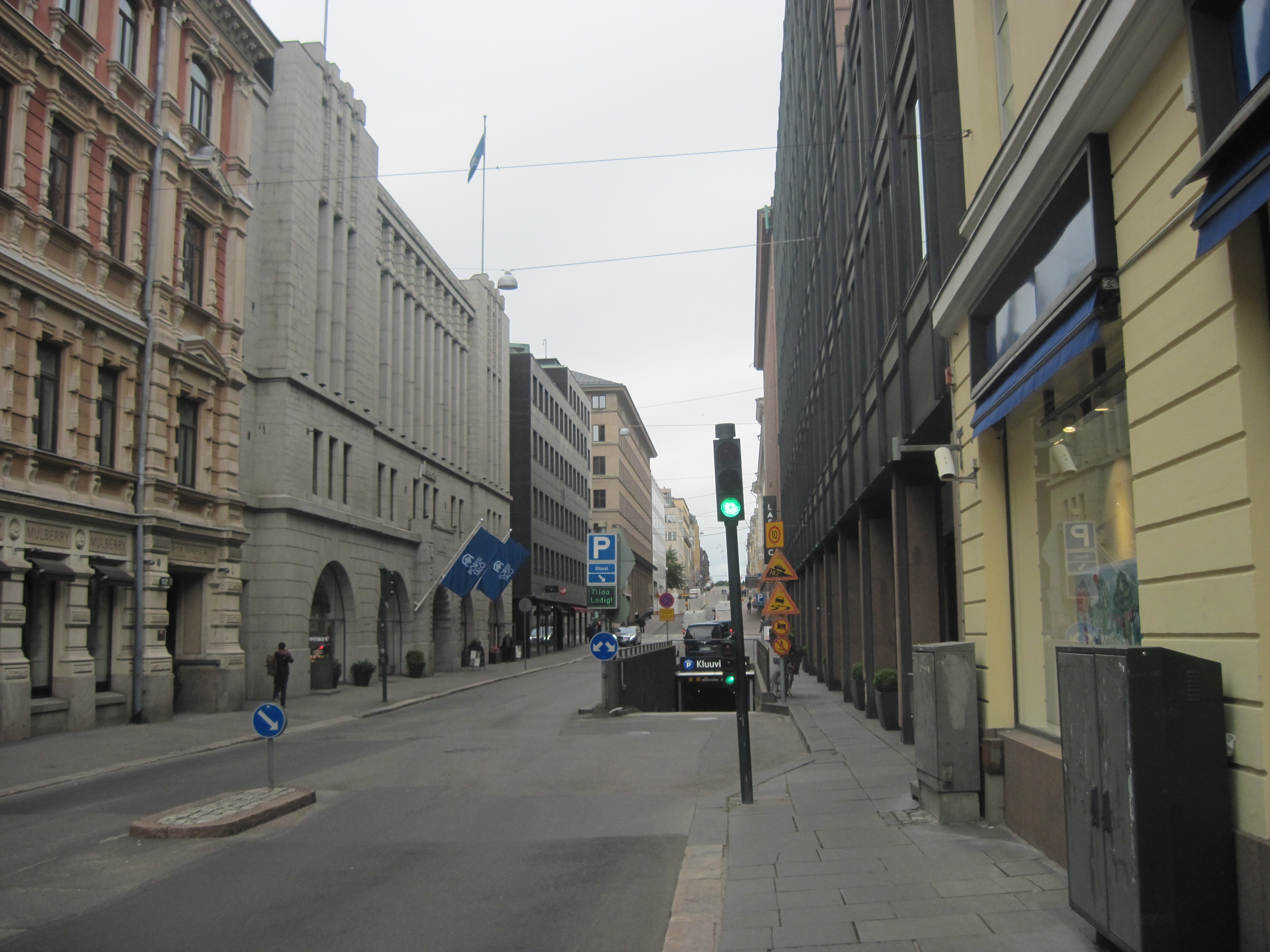 Fabianinkatu in Helsinki, as seen from the corner of Pohjoisesplanadi